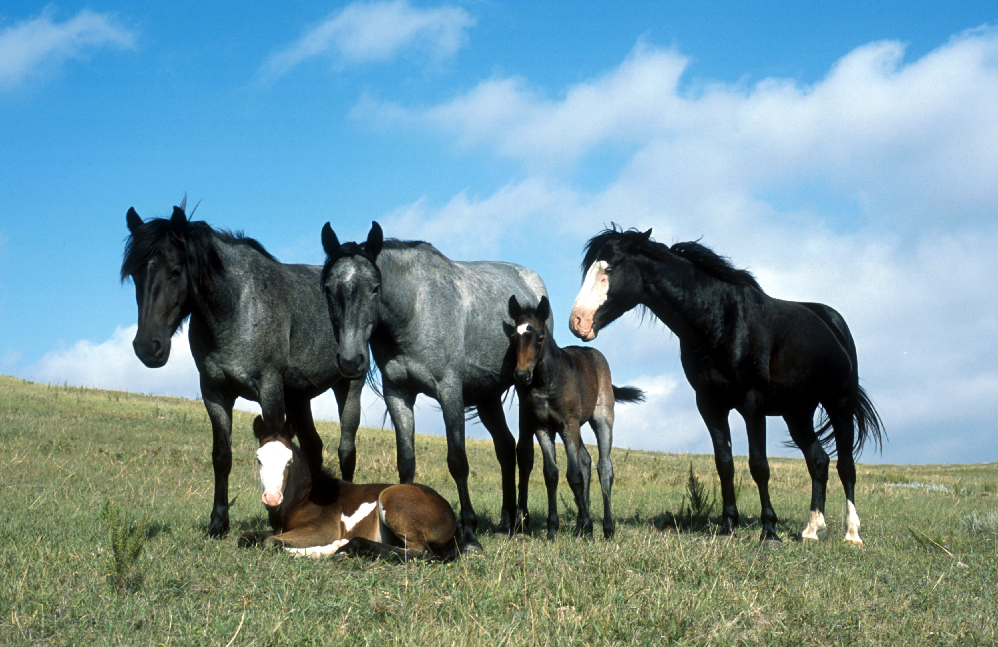 The Nokota stallion Jumping Jack and his band of two mares and foals on the North Dakota prairie. The adult horses here show two common colors of the Nokota horse; blue roan and black, while the foals sport two variants of the within the breed somewhat less common bay coloring. The standing foal also has the roan gene; the foal laying down and the black adult are examples of splashed white, another gene common among the Nokotas.